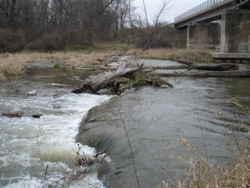 Aqueduct (related to Big Bureau Creek based on use in English Wikipedia article)